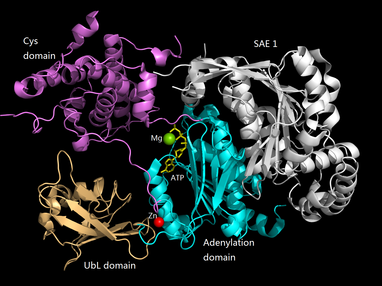 SAE in conjugation with Mg and ATP. Based on PyMOL rendering of PDB 1Y8Q.